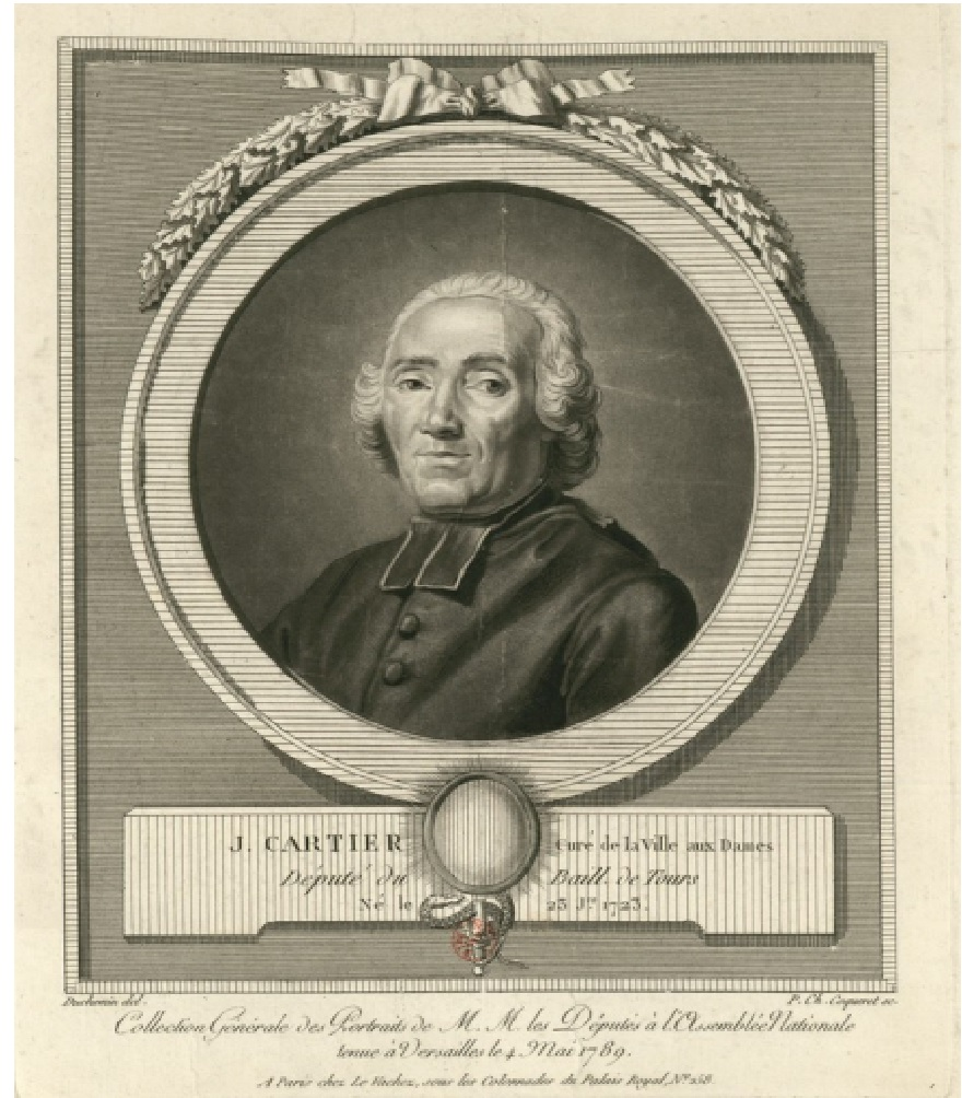 Portrait of Jean Cartier, priest of La Ville-aux-Dames and French deputy in 1789. Drawing of 1790.